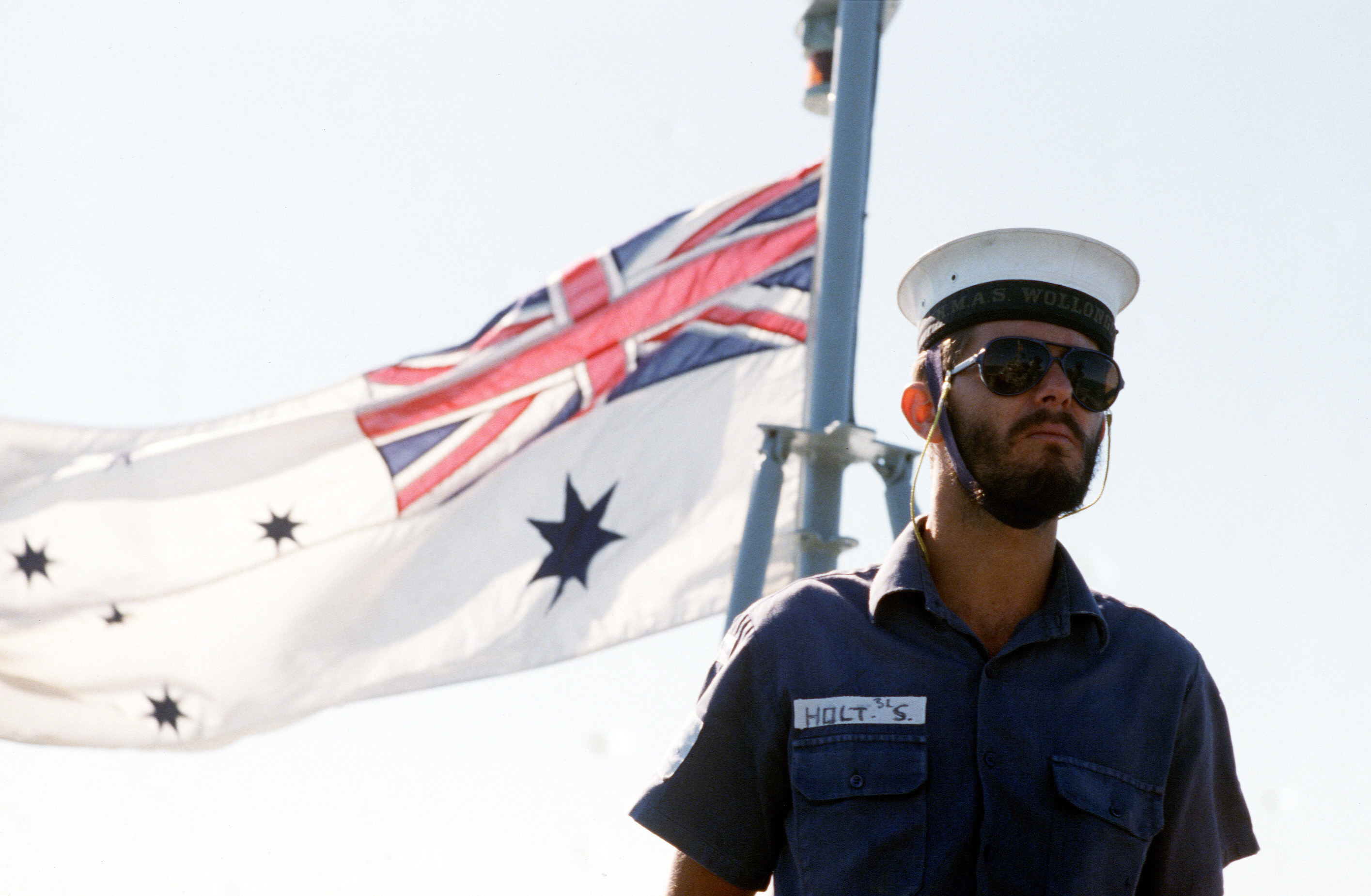 An Australian sailor stands beneath his country's flag on the large patrol craft HMAS WOLLONGONG (206) during the joint U.S./Australian Exercise Kangaroo '89.